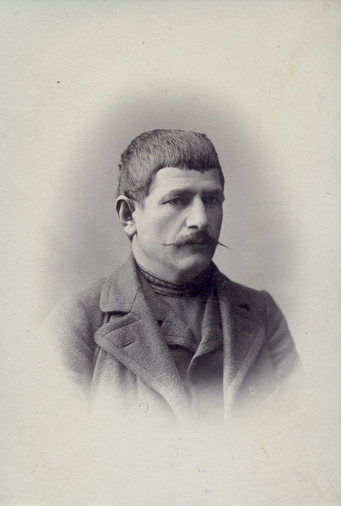 Bulgarian revolutionaire, member of the Internal Macedonian-Adrianopolitan Revolutionary Organization Mitso Vranski (1866-1908).